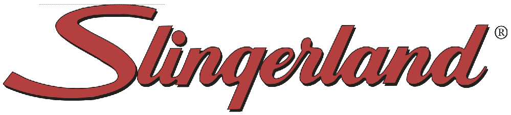 Logo of Slingerland, a drum company of the USA. The brand is currently under license of Gibson.